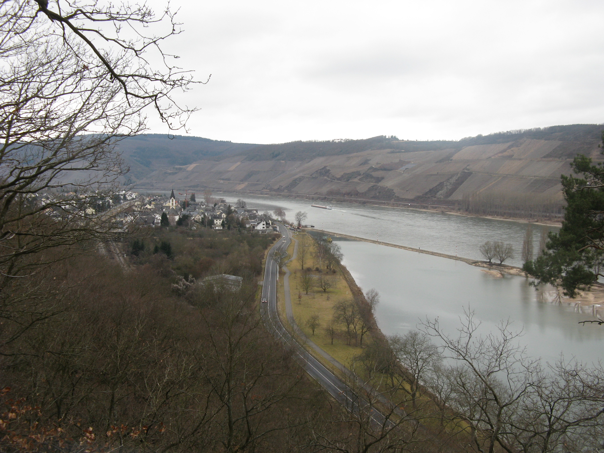 Osterspai, seen from Rheinsteig (Hexenköpfel)